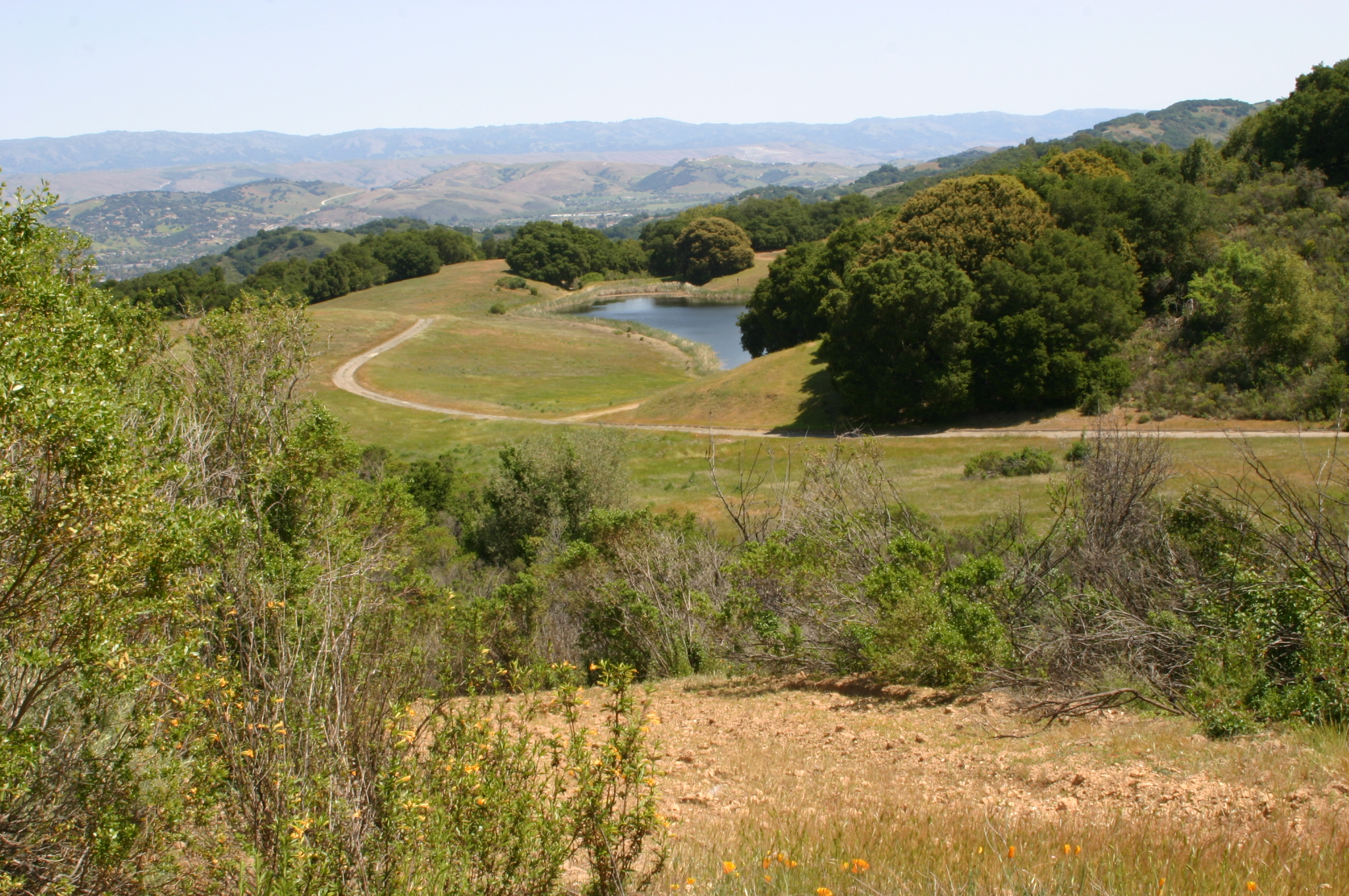 View within the Sierra Azul Open Space Preserve, overlooking Cherry Springs Lake. In the Sierra Azul (mountains) of the Santa Cruz Mountains System, Santa Clara County, Northern California. Part of the Midpeninsula Regional Open Space District system.